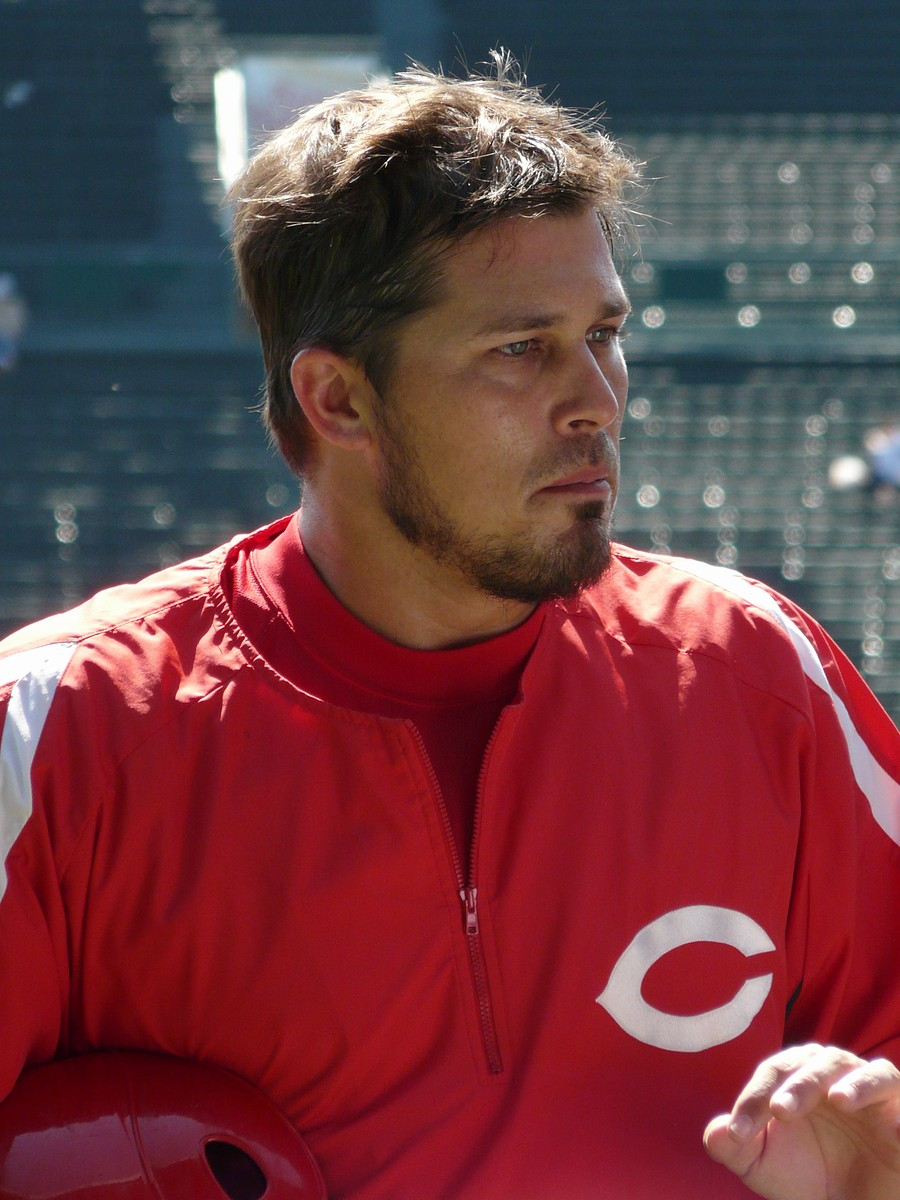 Andy Phillips, infielder of the Hiroshima Toyo Carp, at Hanshin Koshien Stadium.